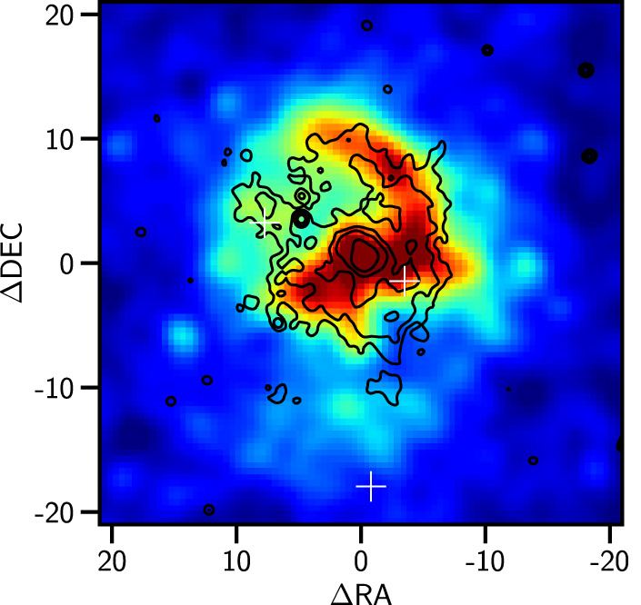 Chandra image of NGC 5846 with superimposed contours of Hα+[N ii] emission. White crosses mark the detected CO cloud positions. Part of a collage that includes similar images of NGC 4636 and NGC 5044.